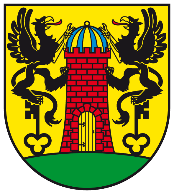 Coat of Arms of Wolgast